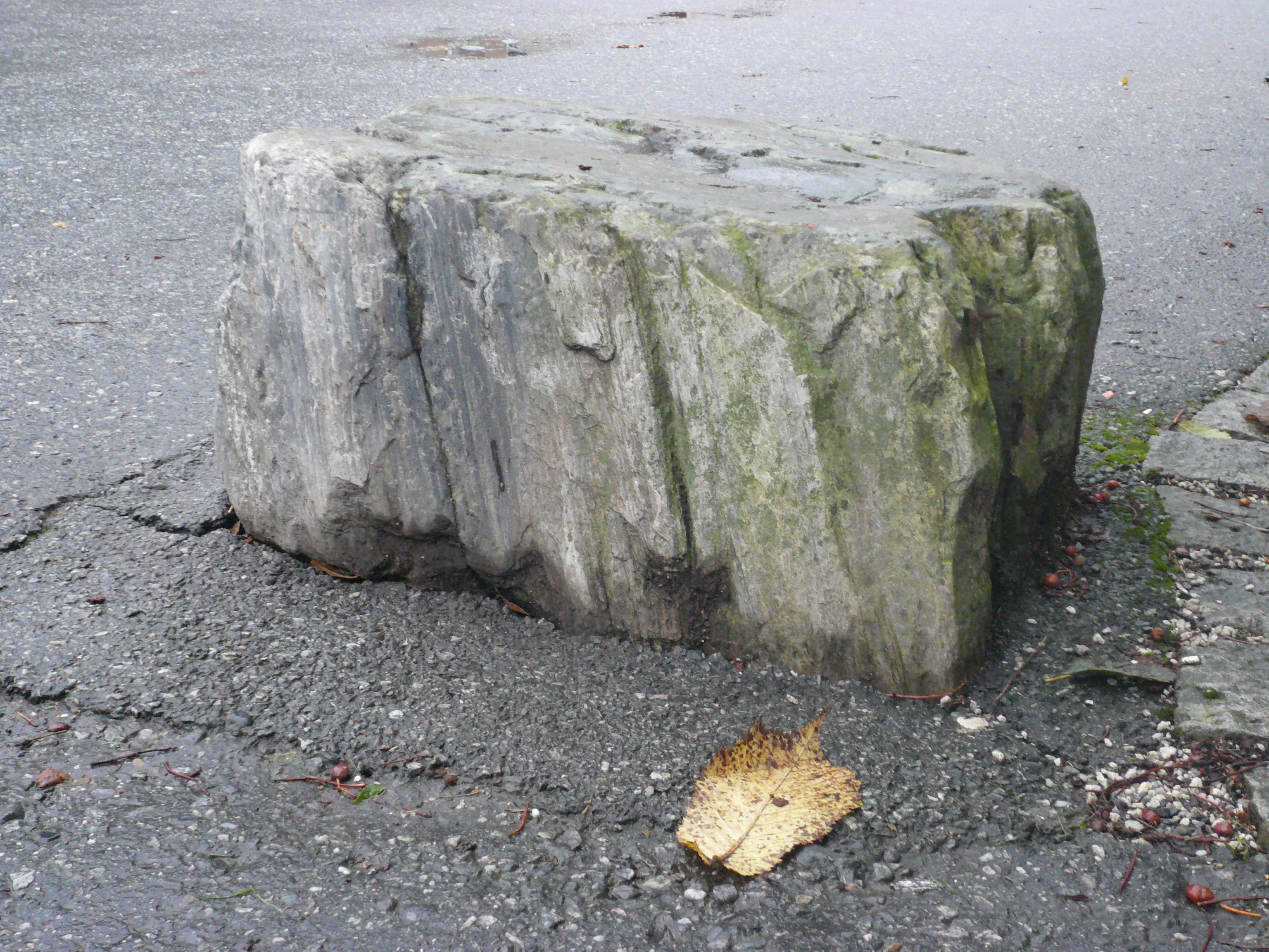 Lensmannssteinen, Voss, Norway.